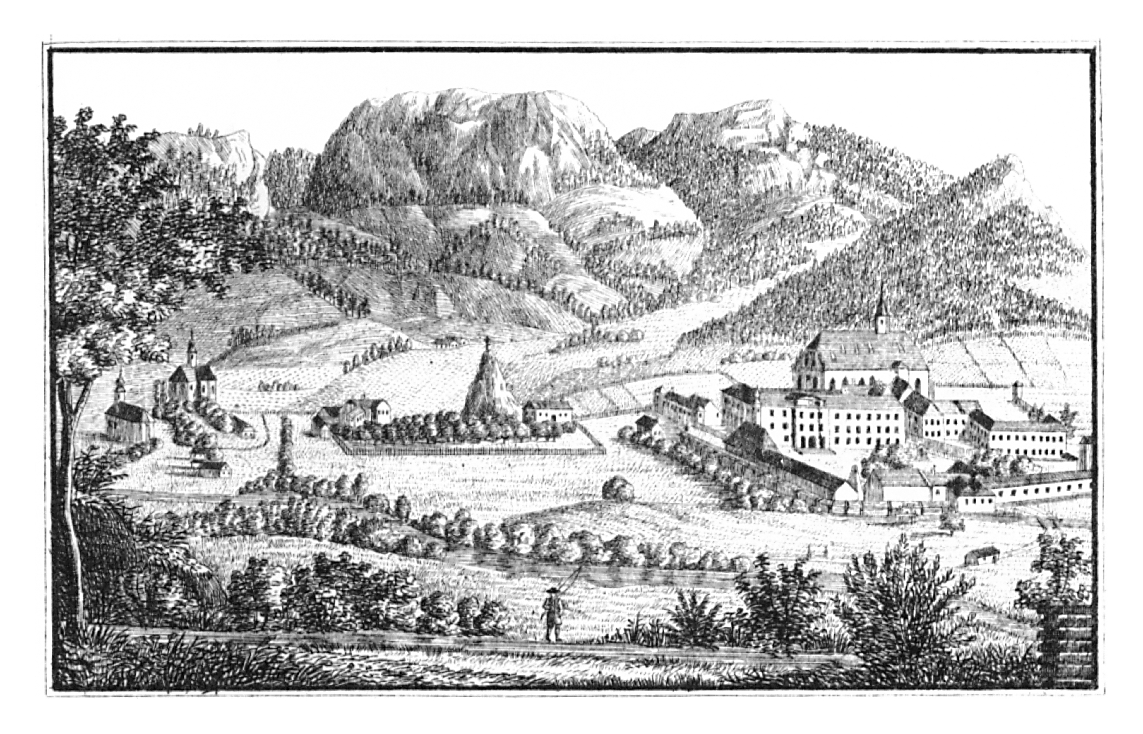 J. F. Kaiser - lithographirte Ansichten der Steyermärkischen Städte, Märkte und Schlösser, Graz 1824-1833 Joseph Franz Kaiser (1786–1859) Alternative names J. F. KaiserDescriptionAustrian printer and editorDate of birth/death 11 March 1786 19 September 1859Location of birth/death Graz (Styria) GrazAuthority control : Q1499963 VIAF: 30629353 ISNI: 0000 0000 3083 0153 LCCN: n87141671 GND: 129880159 NLP: A24960305 WorldCat creator QS:P170,Q1499963 . Scanprojekt Community Projektbudget 2012 This scan or this PDF-file was created within the GLAM-project Bookscanning, supported by Wikimedia Germany and Wikimedia Austria as a part of the community-project to capture books, documents and pictures which are not eligible to copyright or for which the copyright has expired. This document describes or depicts an object which is located in Austria today. Send requests for uncompressed scans to Hubertl. This work is in the public domain in its country of origin and other countries and areas where the copyright term is the author's life plus 100 years or less. You must also include a United States public domain tag to indicate why this work is in the public domain in the United States. This file has been identified as being free of known restrictions under copyright law, including all related and neighboring rights.